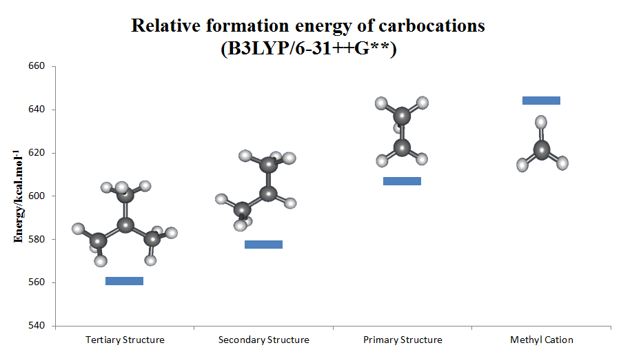 from the computational calculation using B3LYP/6-31++G**